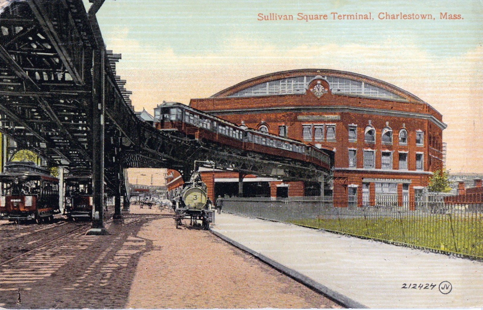 Sullivan Square on the Charlestown Elevated